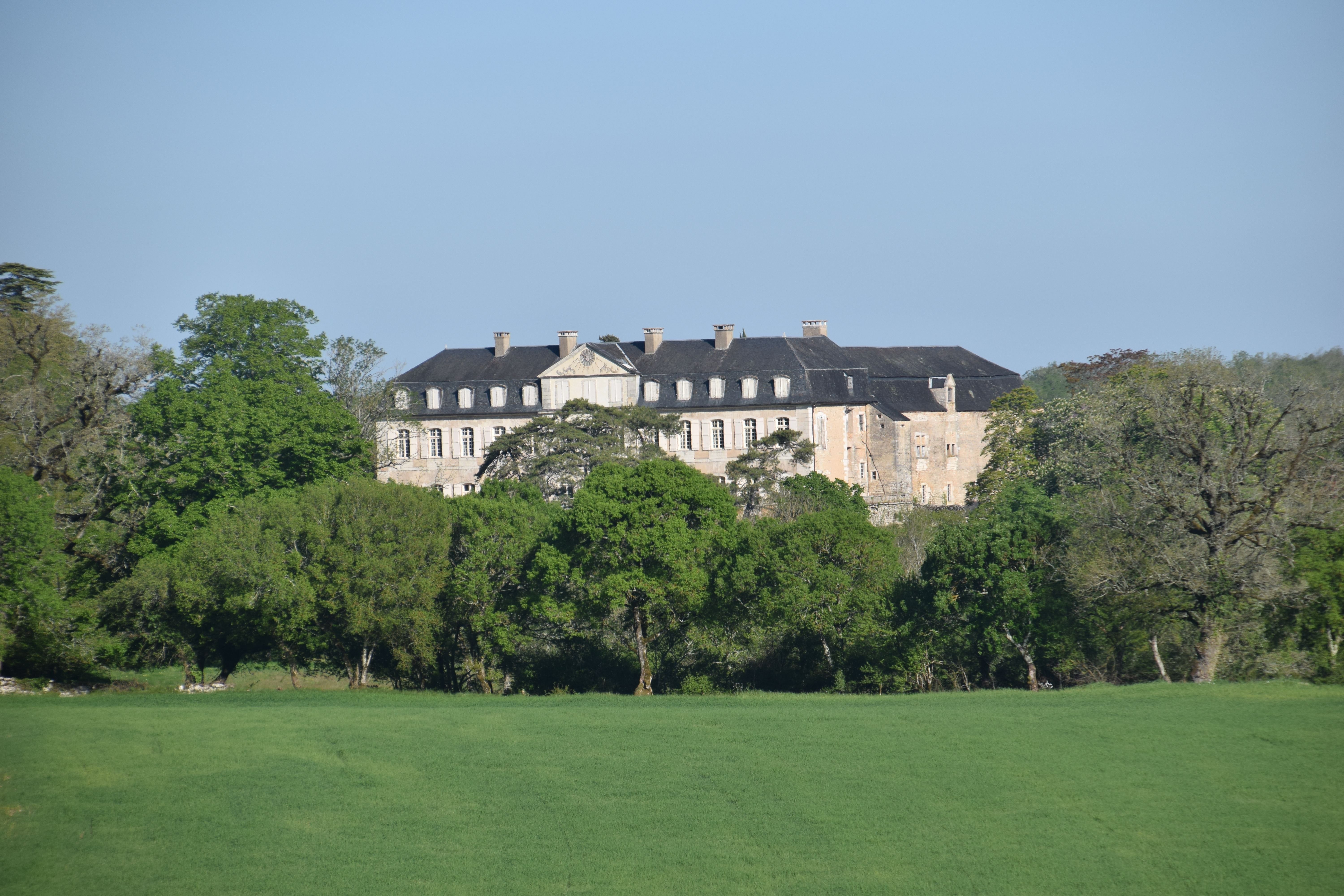 Château de la Pannonie, Couzou, Lot, France